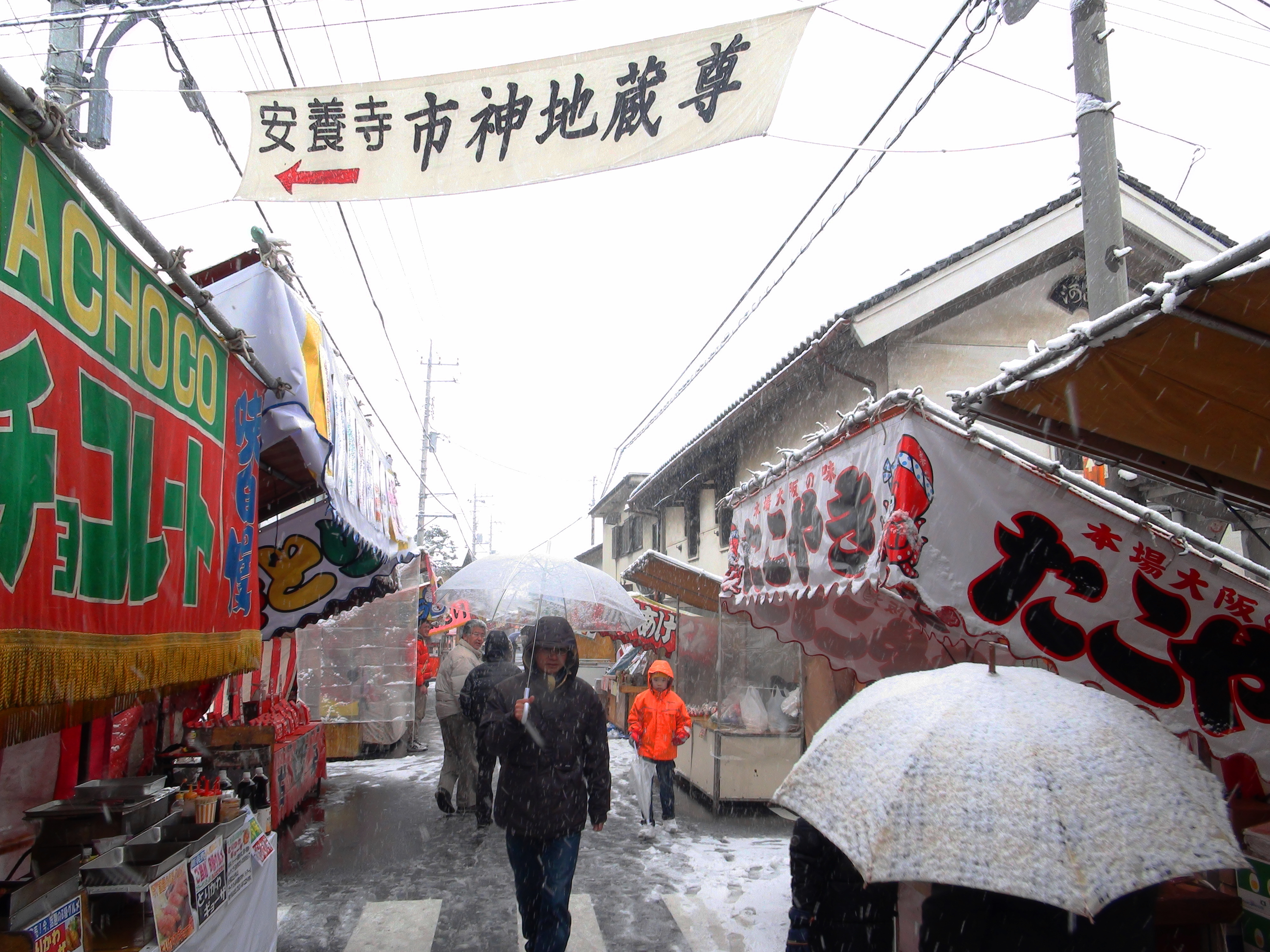 Tokaichi Market festival Minami-alps-City